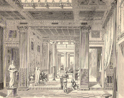 house in Pompeii